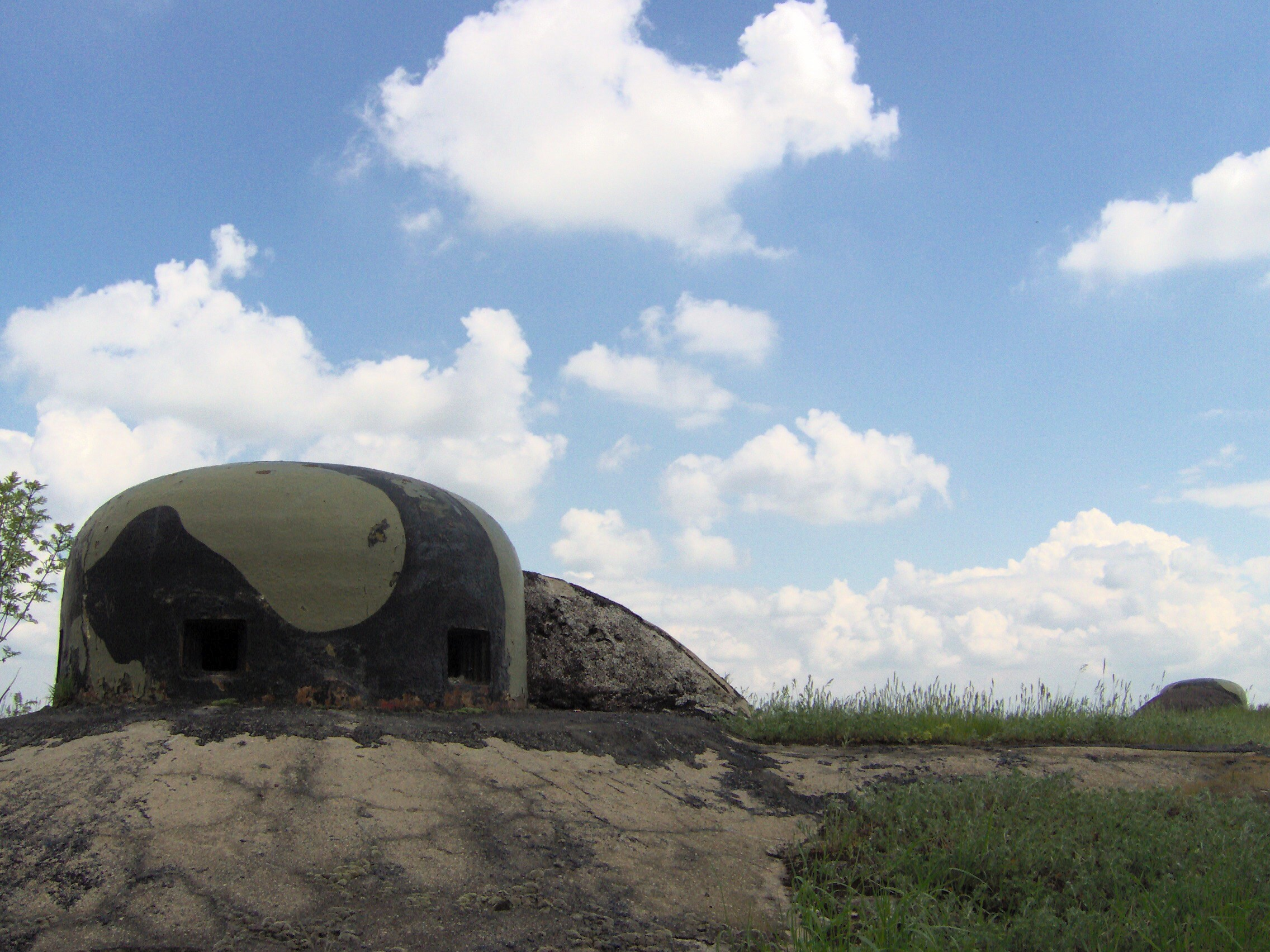 MJ-S 16 Výběžek infantry casemate, Znojmo District, Czech Republic